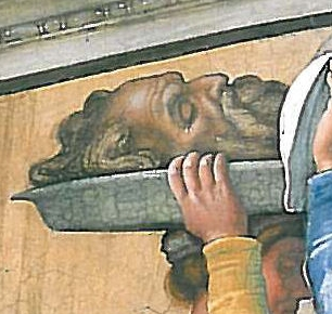 fresco painted by Michelangelo and his assistants for the Sistine Chapel in the Vatican between 1508 to 1512